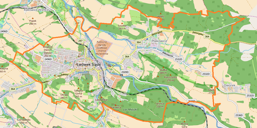 Map of Lwówek Śląski, PolandThis map of Lwówka Śląskiego was created from OpenStreetMap project data, collected by the community. This map may be incomplete, and may contain errors. Don't rely solely on it for navigation.